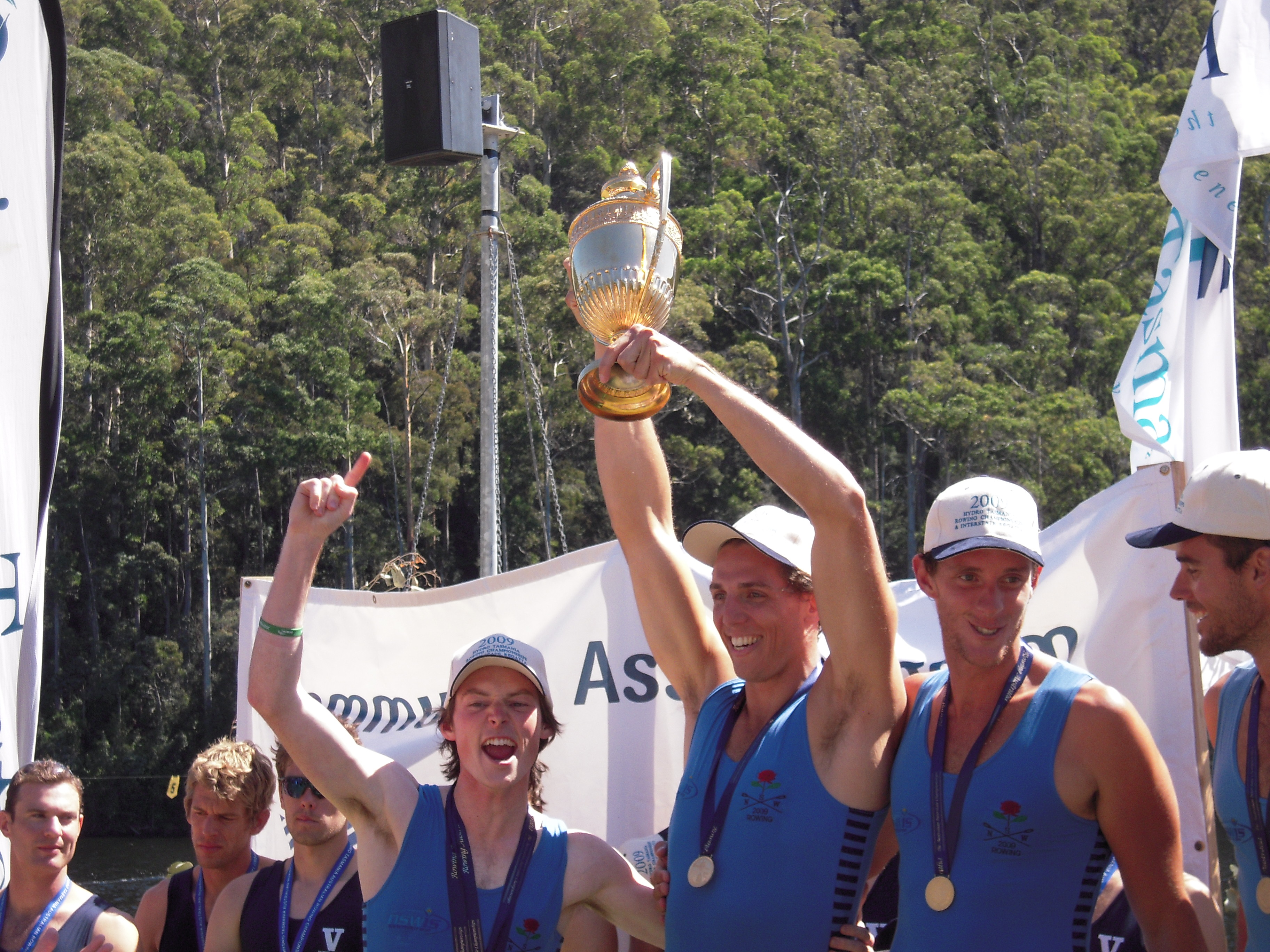 Toby Lister, Terrence Alfred, Fergus Pragnell, Matt Ryan celebrating winning the Kings Cup 2009